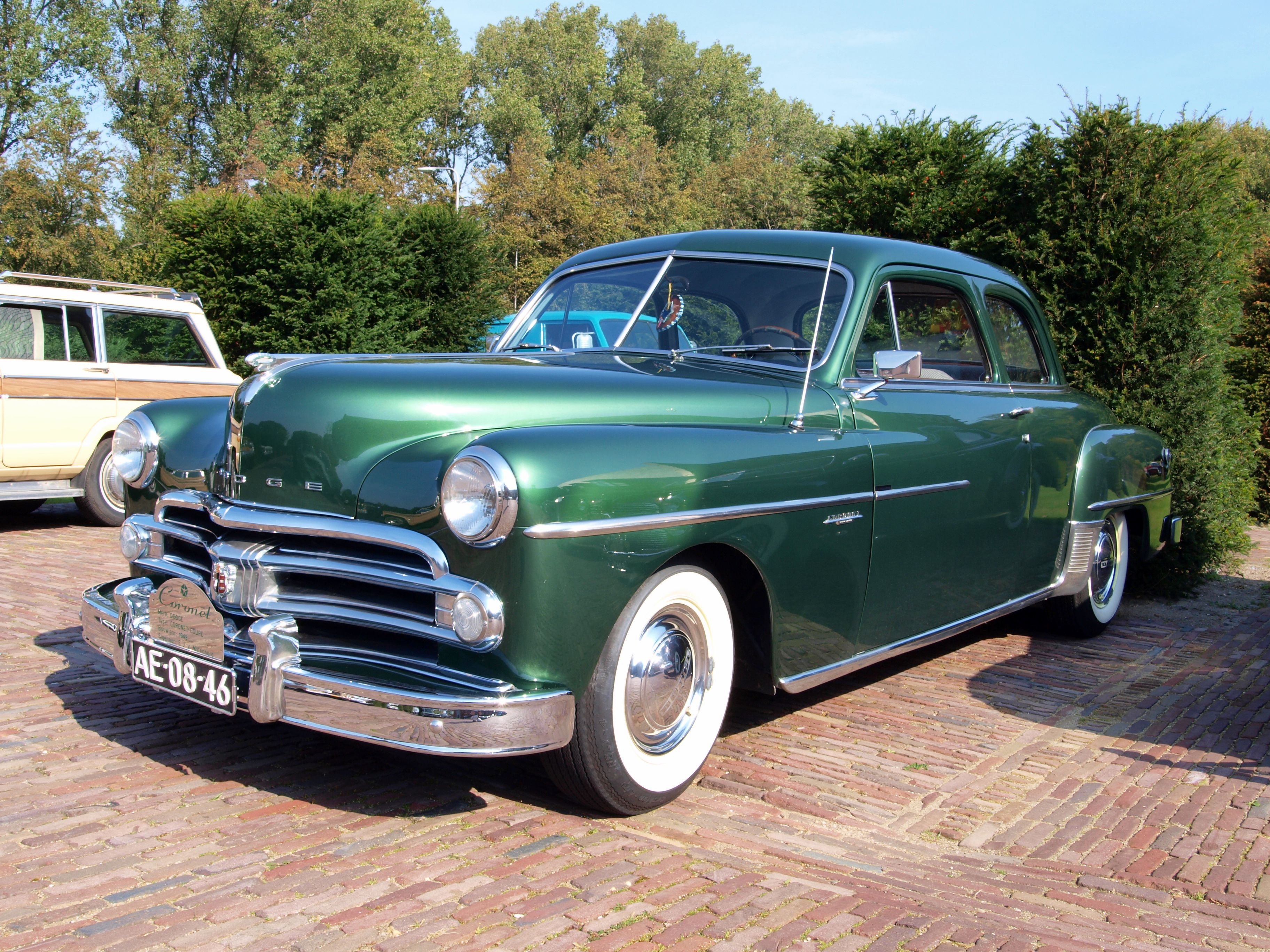 Photographed at the premmesis of the Louwman museum, The Hague, The Netherlands. OLYMPUS DIGITAL CAMERA